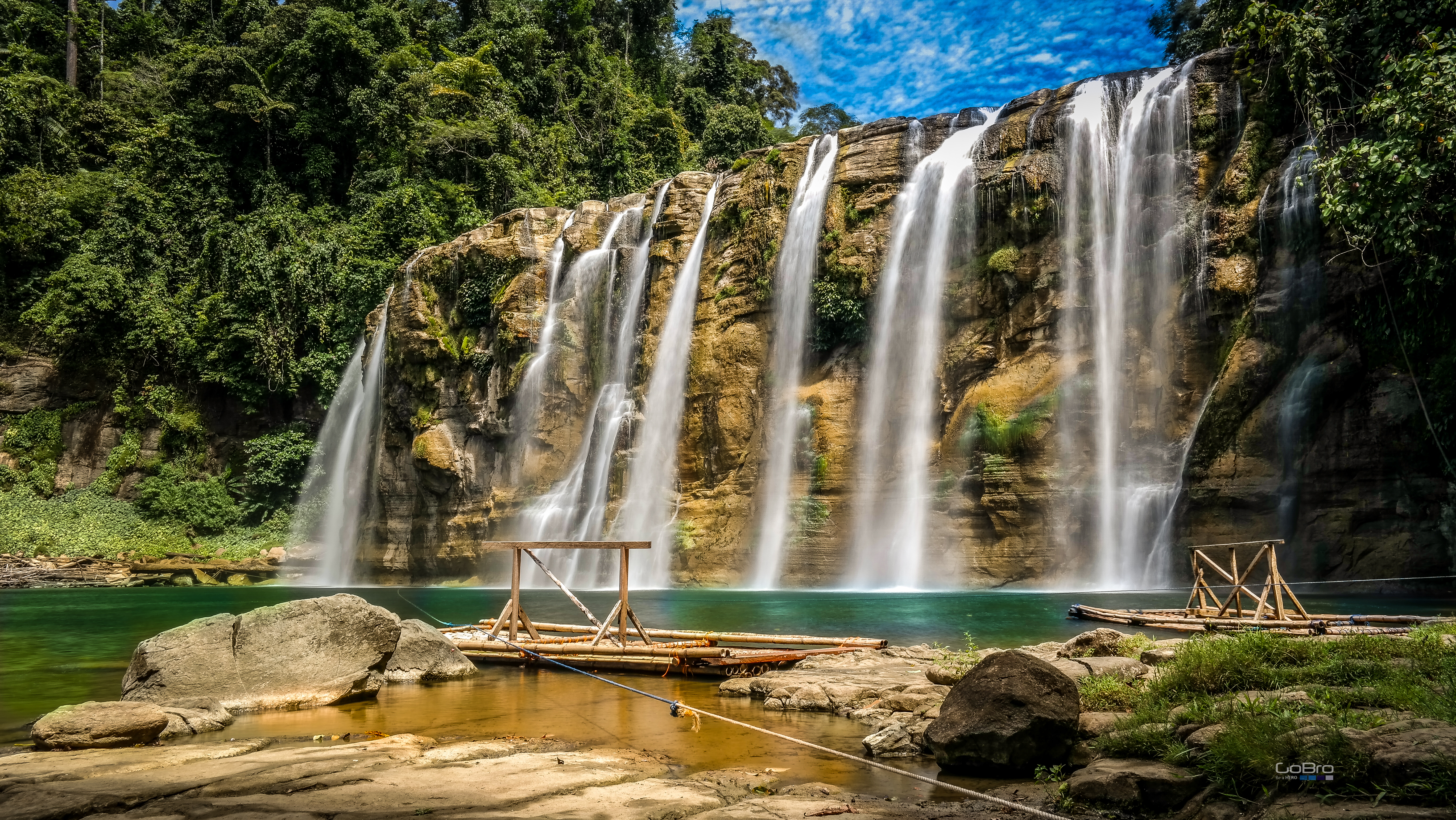 Tinuy-an Falls is a waterfalls in Bislig City, Surigao del Sur in the southern island of Mindanao, Philippines. It is the main tourist attraction in Bislig, a city known as the Booming City by the Bay.